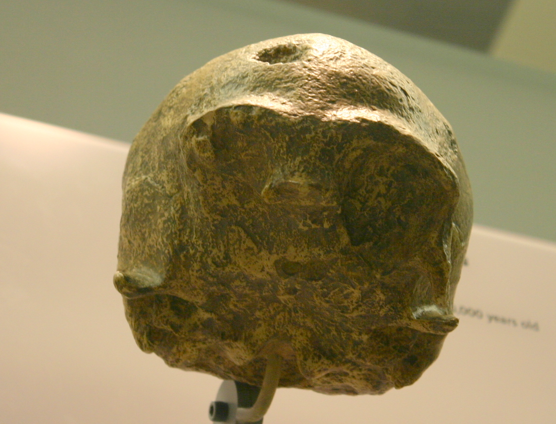 Taken at the David H. Koch Hall of Human Origins at the Smithsonian Natural History Museum.